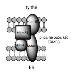 Vietnamese translation of